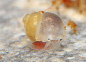 Belgrandiella wawrai in Lower Austria